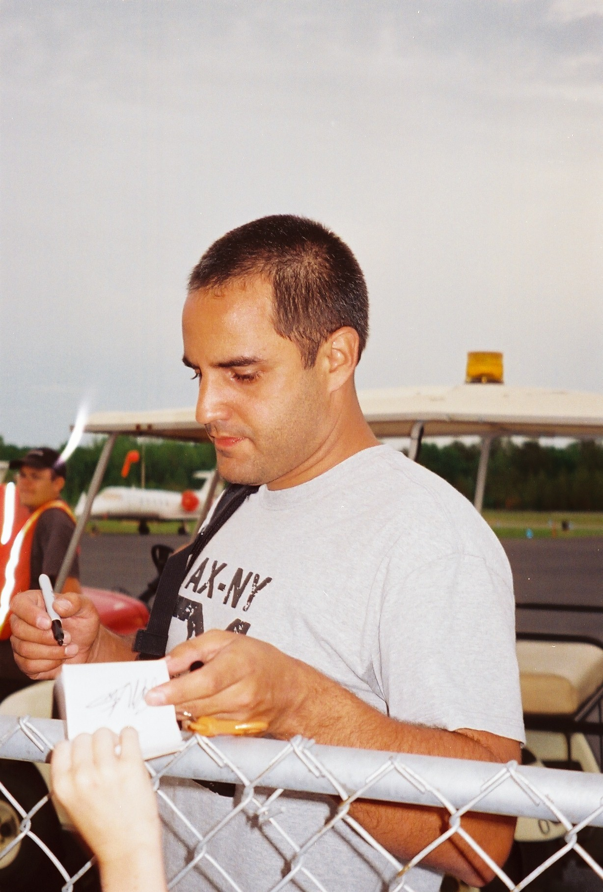 Talladega, AL 4-08 arriving for nascar race